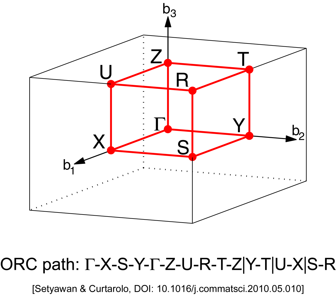 Curtarolo, consortium